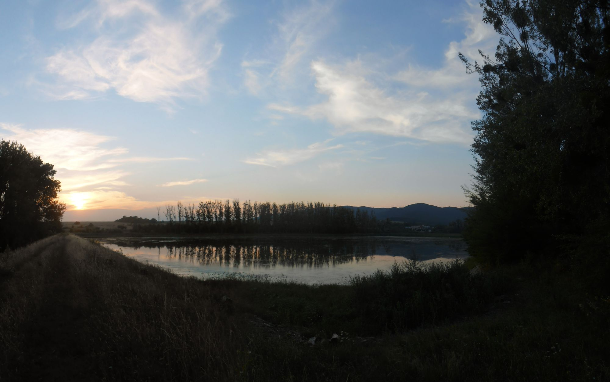 Fishpond near Oreské village